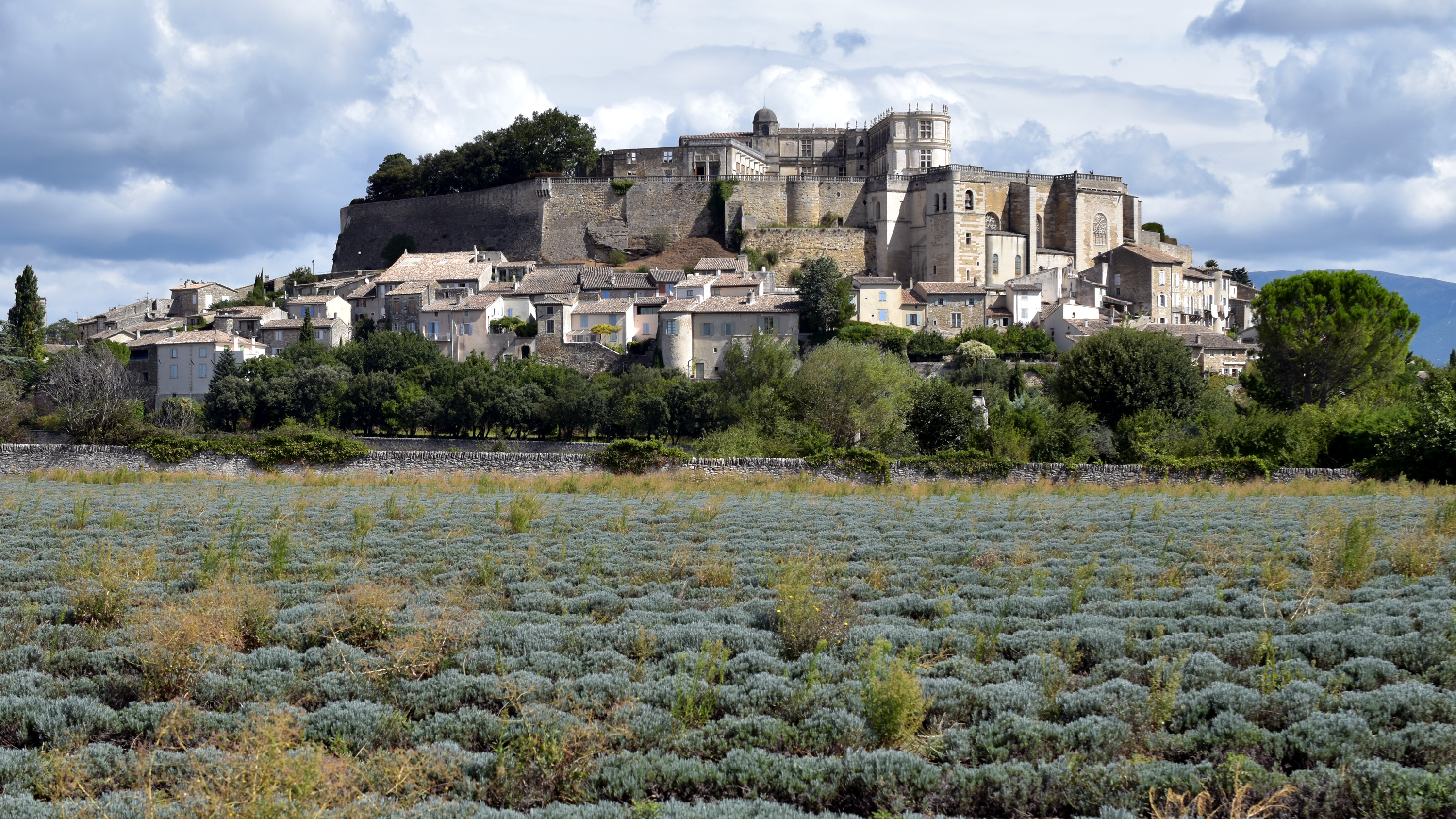 Grignan